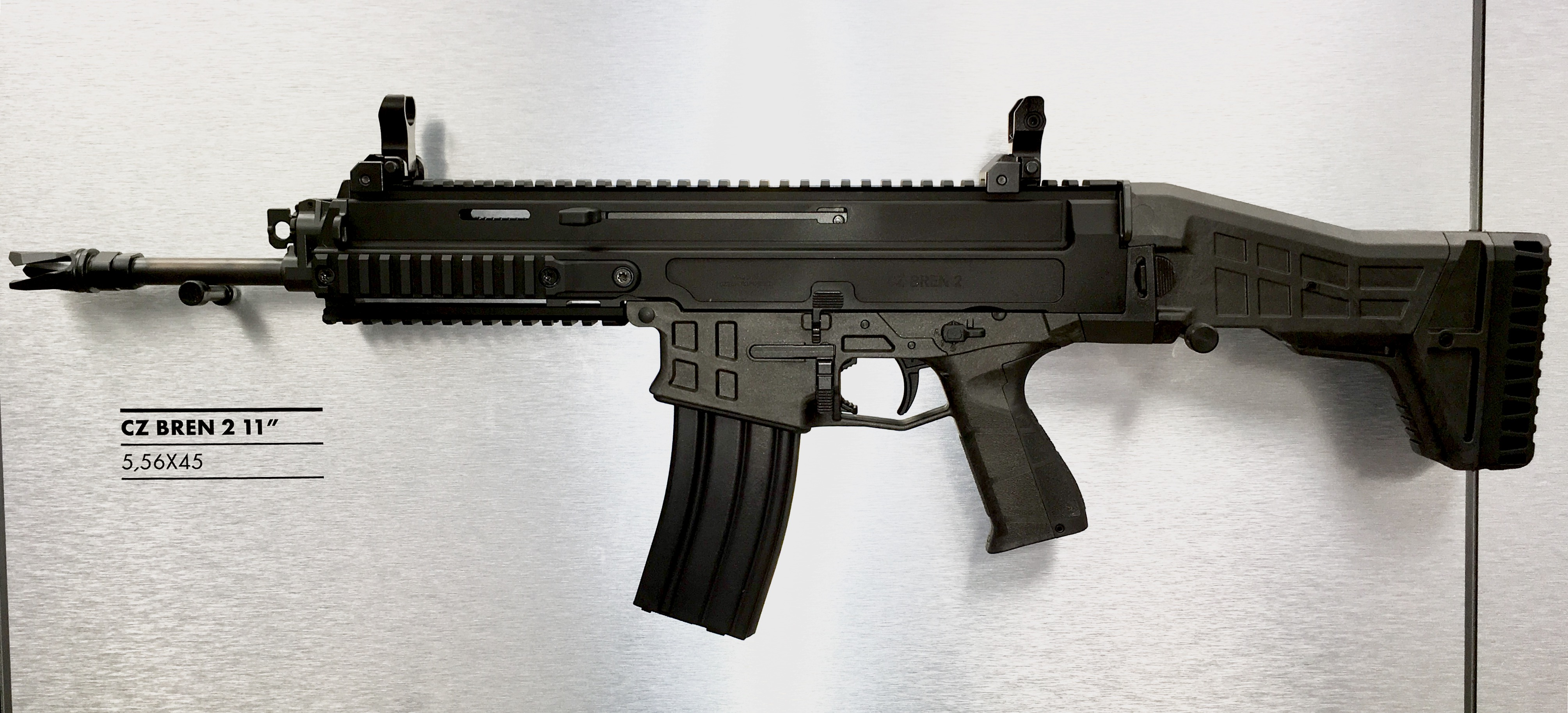 CZ BREN 2 with 11 inches barrel in calibre 5,56x45 NATO